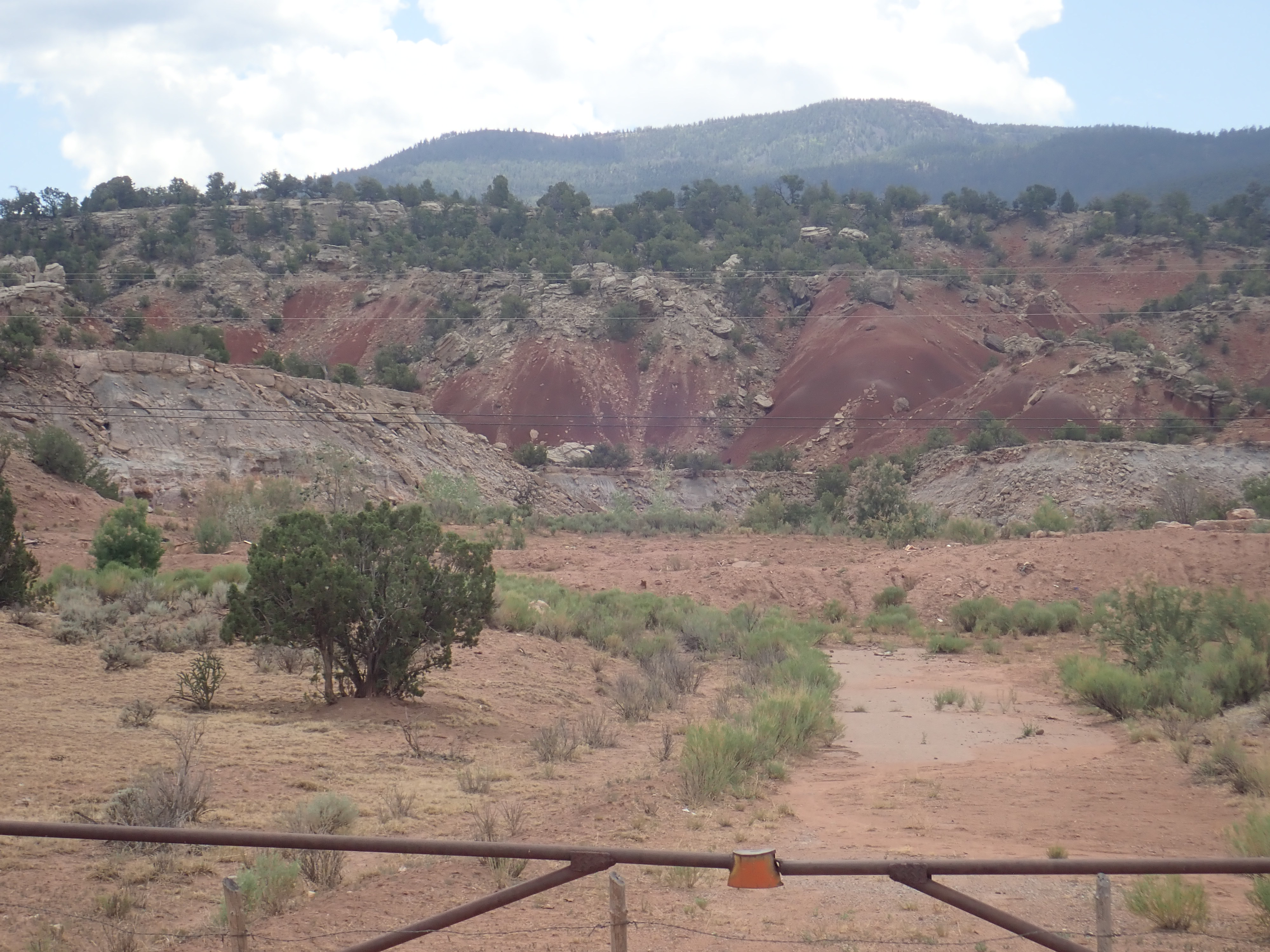 This image shows the type section of the Salitral Formation, which is near Youngsville, New Mexico, USA. The Salitral Formation is part of the Chinle Group of the late Triassic and is mostly mudstone laid down in a low-energy fluvial environment. The lowermost grayish beds are the Piedra Lumbre Member, capped by the conglomerate of the El Cerrito Bed. The thick reddish brown section above the El Cerrito Bed is the Youngsville Member.